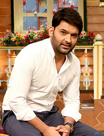 Karan Johar snapped on sets of The Kapil Sharma Show